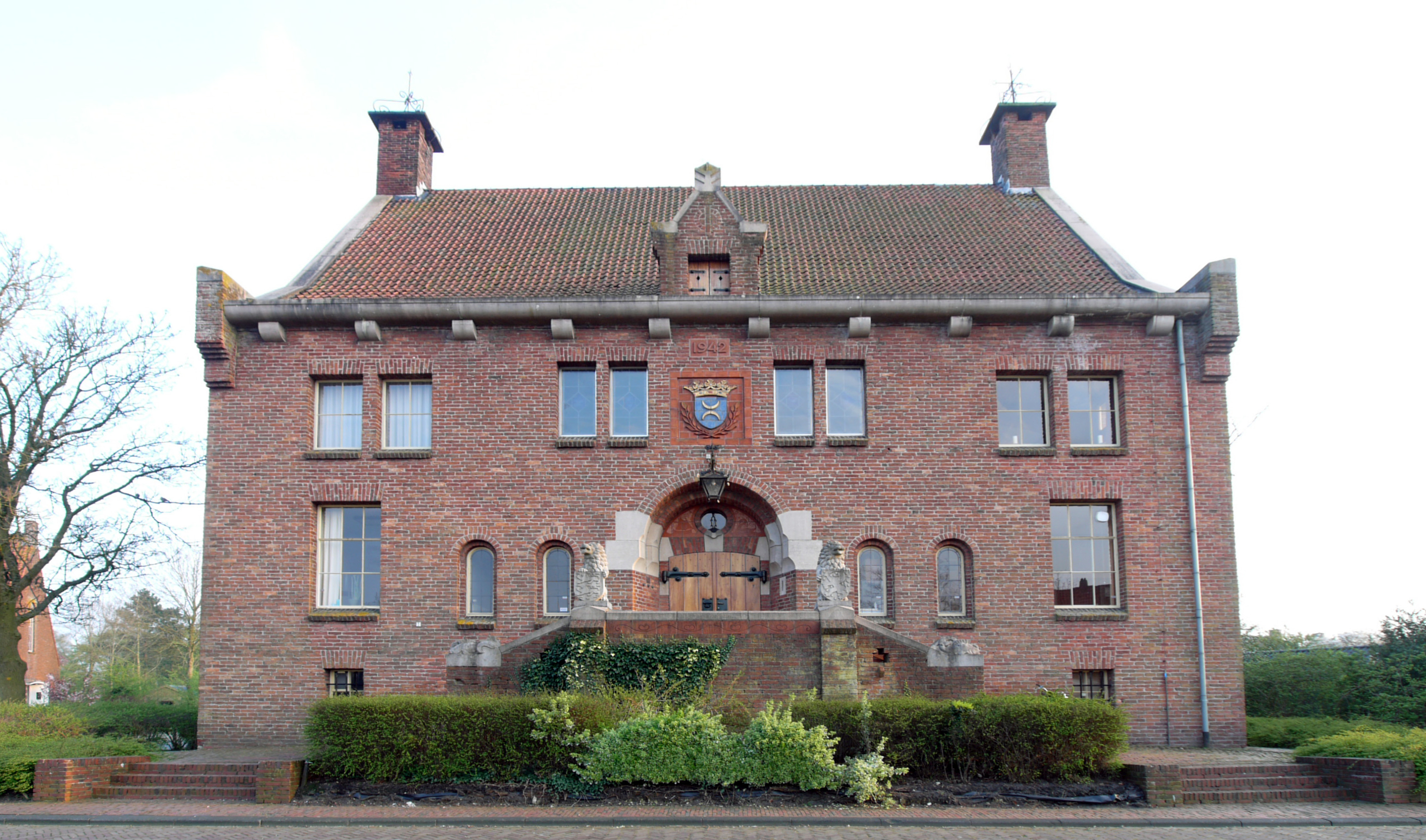 Raadhuis Grou